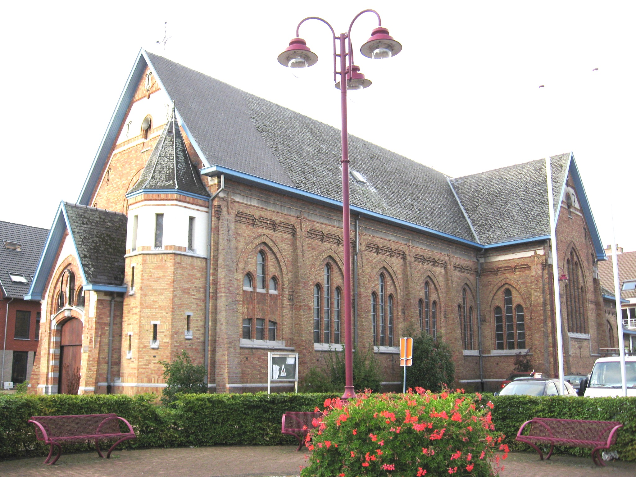 Church of the Immaculate Conception of Our Lady in Tessenderlo (Hulst), Limburg, Belgium